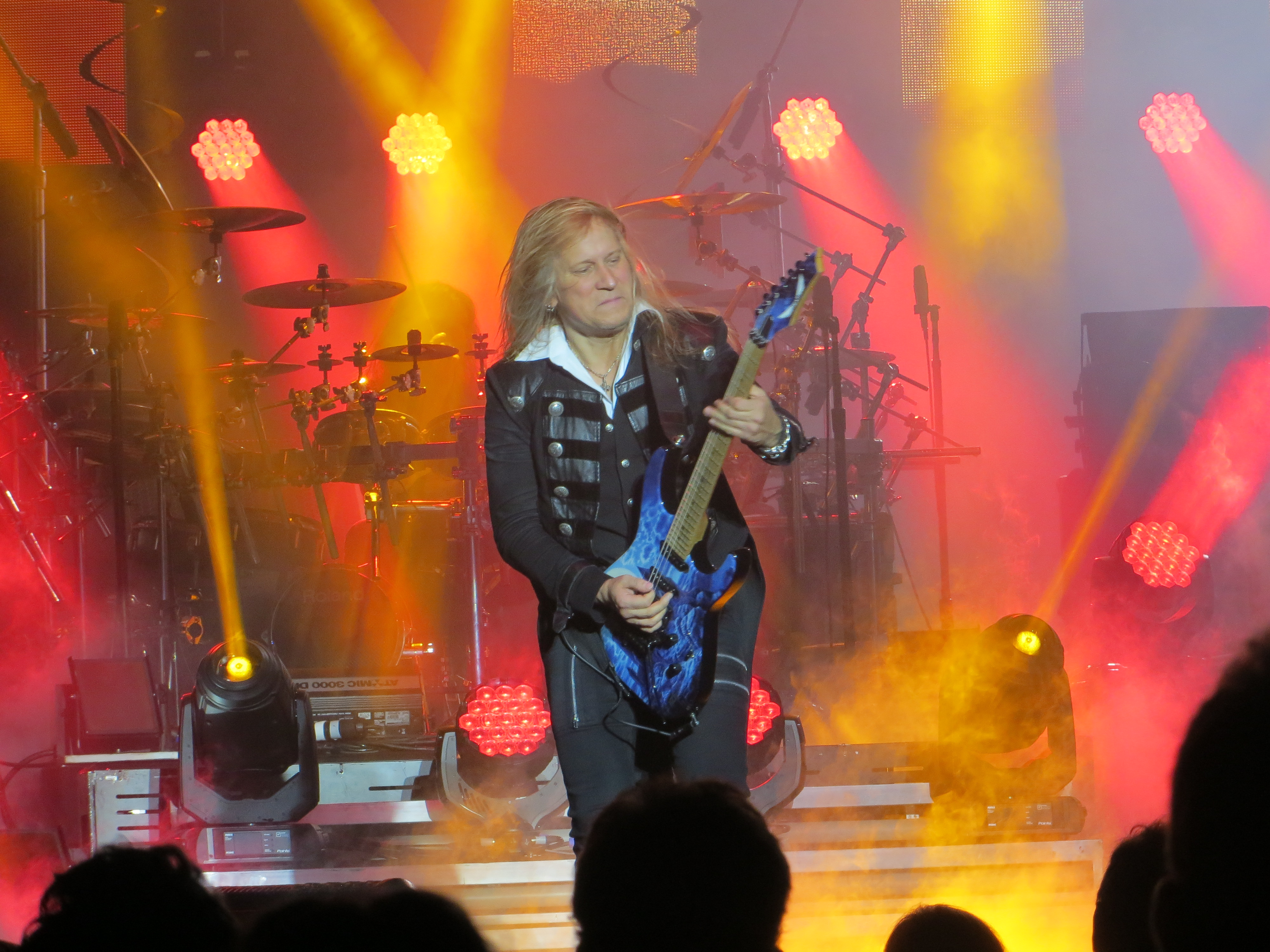 Chris Caffery playing with the Trans-Siberian Orchestra in 2014